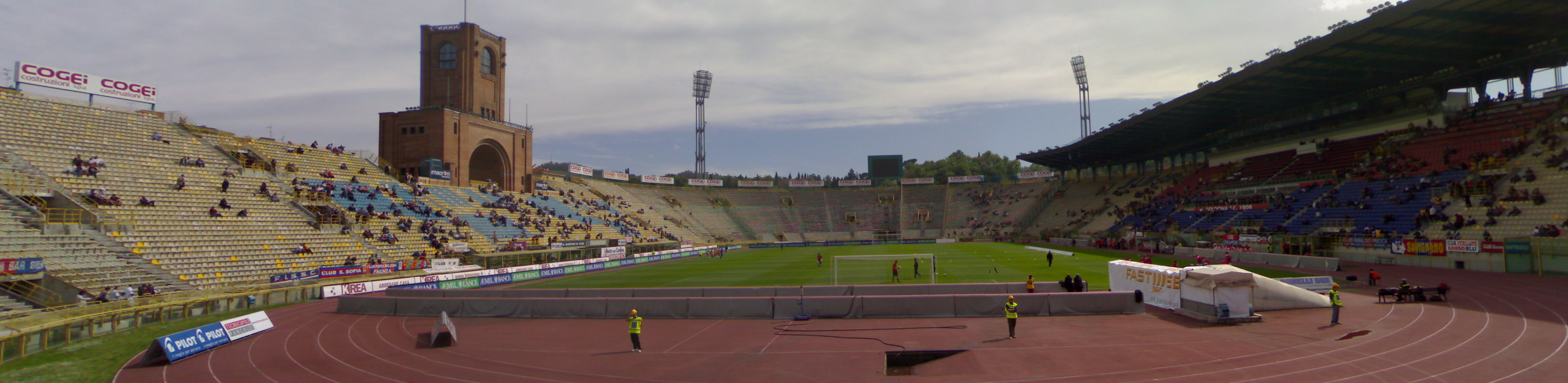 A view of the stadium Renato Dall'Ara in Bologna, Italy, from the Andrea Costa stand (now called Giacomo Bulgarelli stand)